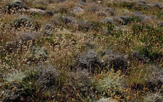 Garrigue on Corsica with Cistus sp., Helichrysum italicum and Asphodelus albus among others